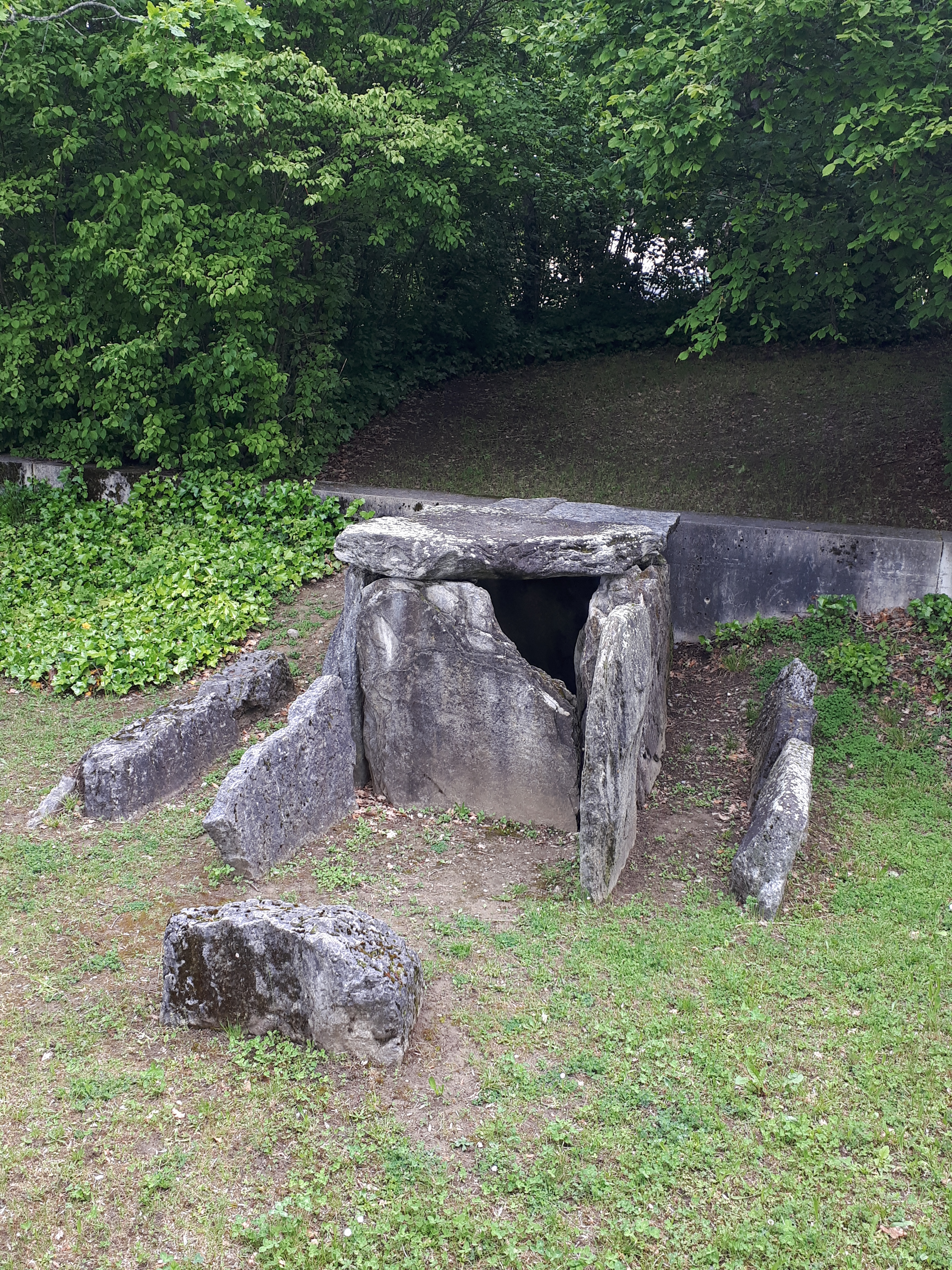 The dolmen of Plant de Rives is a collective megalithic grave from the neolithic and the bronze age. It was discovered in 1876 during excavations in Auvernier and was moved several times before it was exposed in the parc of the Laténium, cantonal museum of archaeology in the canton of Neuchâtel. It contained 20 bodies and was used over a long period of time. It is made of slabs of granite, gneiss and schist.